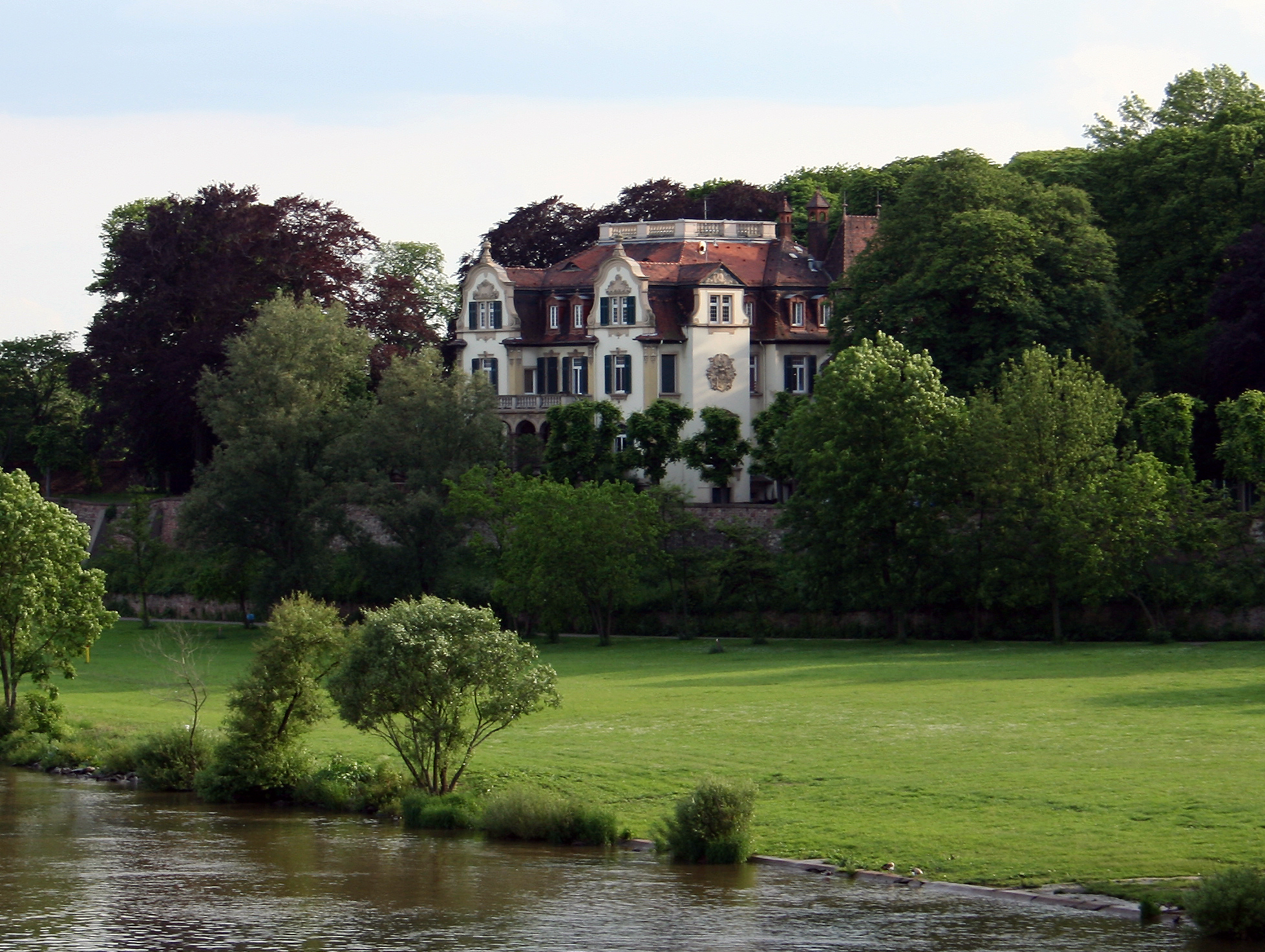 Villa Meister, a privat withdrawal clinic, built 1902 by a member of Hoechst-Board of directors Herbert von Meister